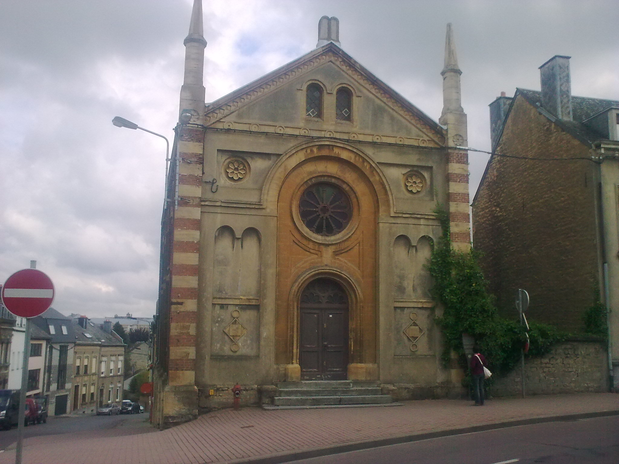 Arlon: the oldest synagogue in Belgium, by architect Jamot, inaugurated in 1865.